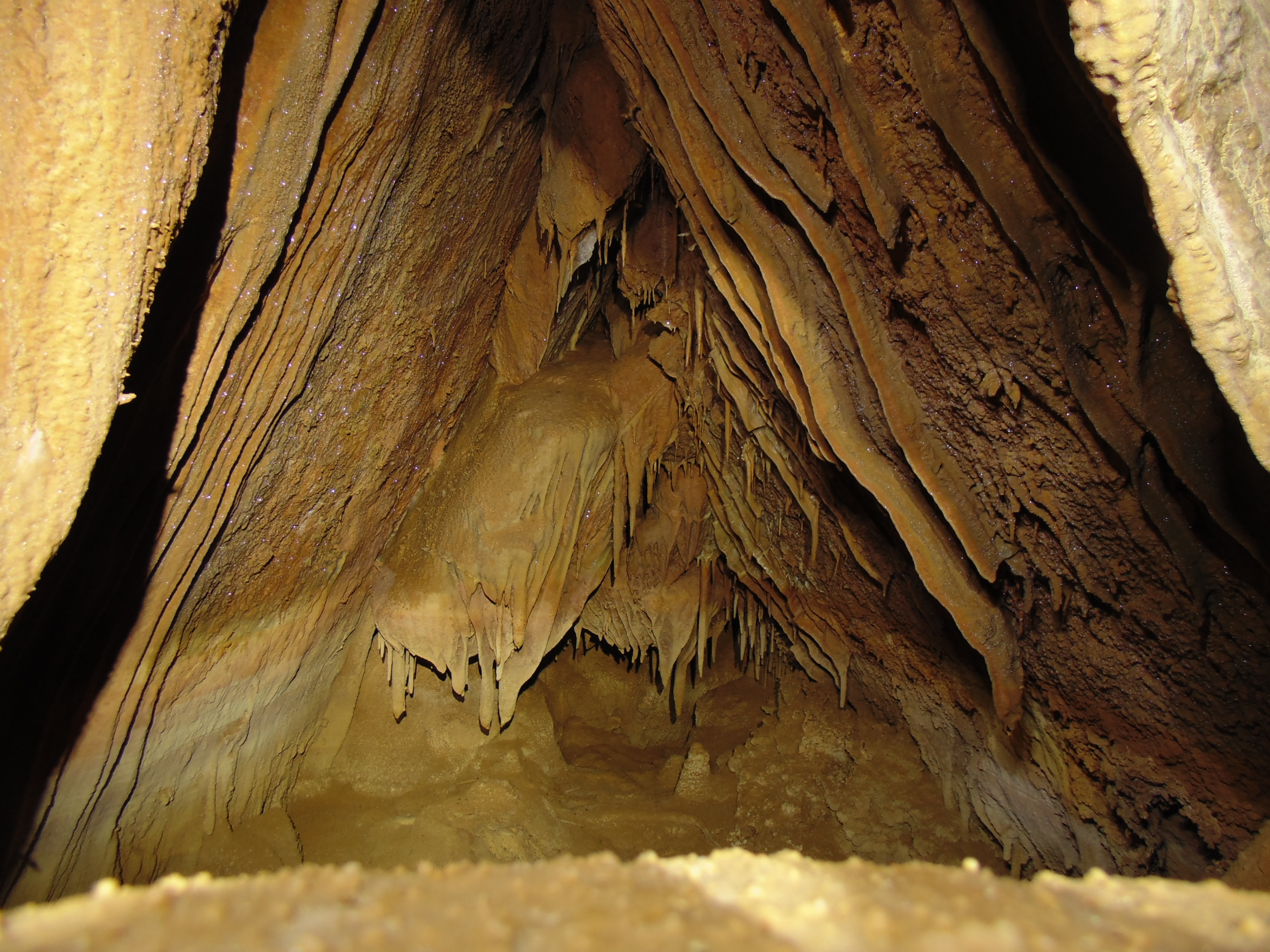 while caving with spéléologie club bizerte in Djebel Serj ,the underground world never fails to fascinate us